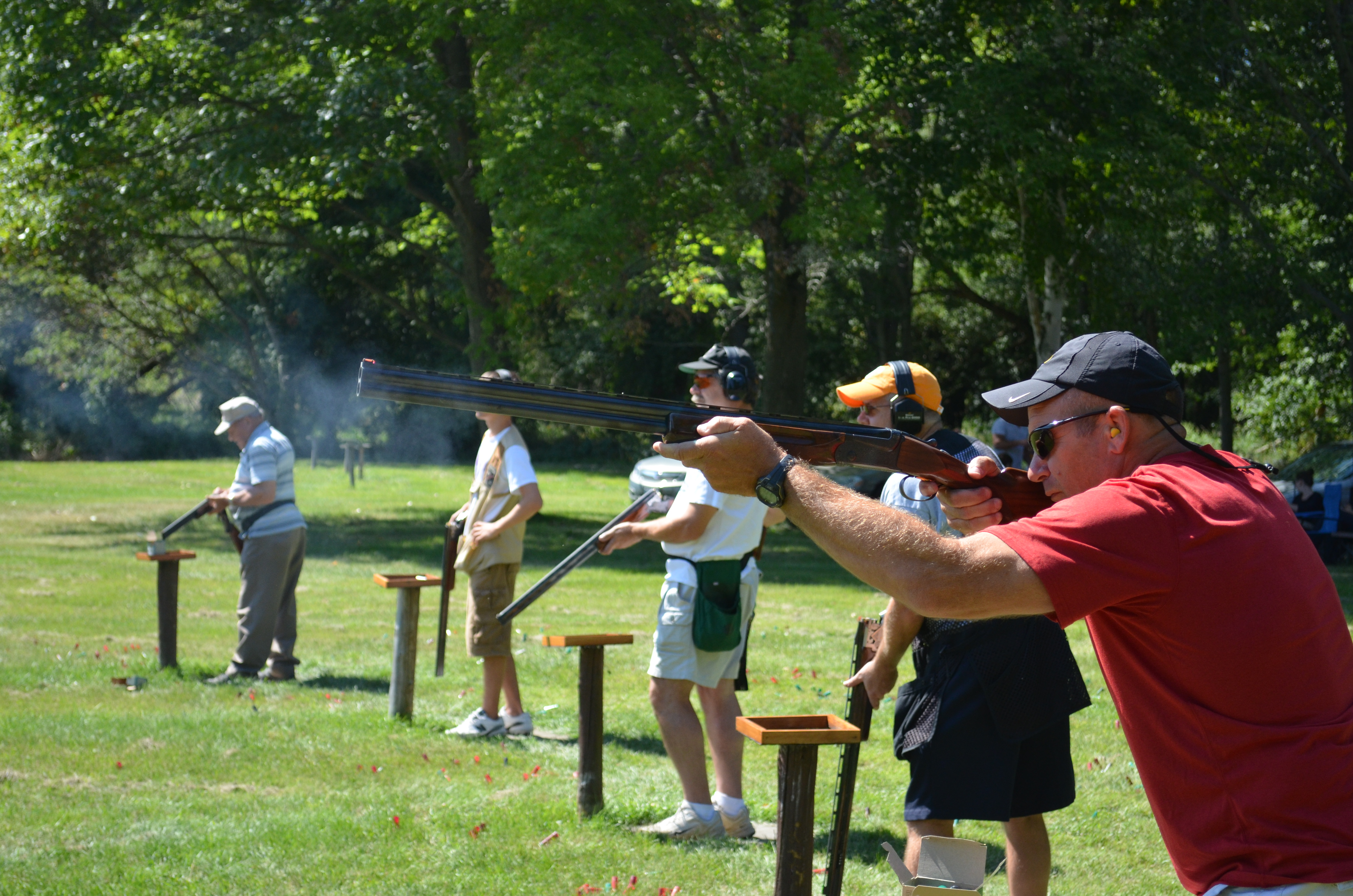 this image provides a good representation of a local trap shoot and the line up.